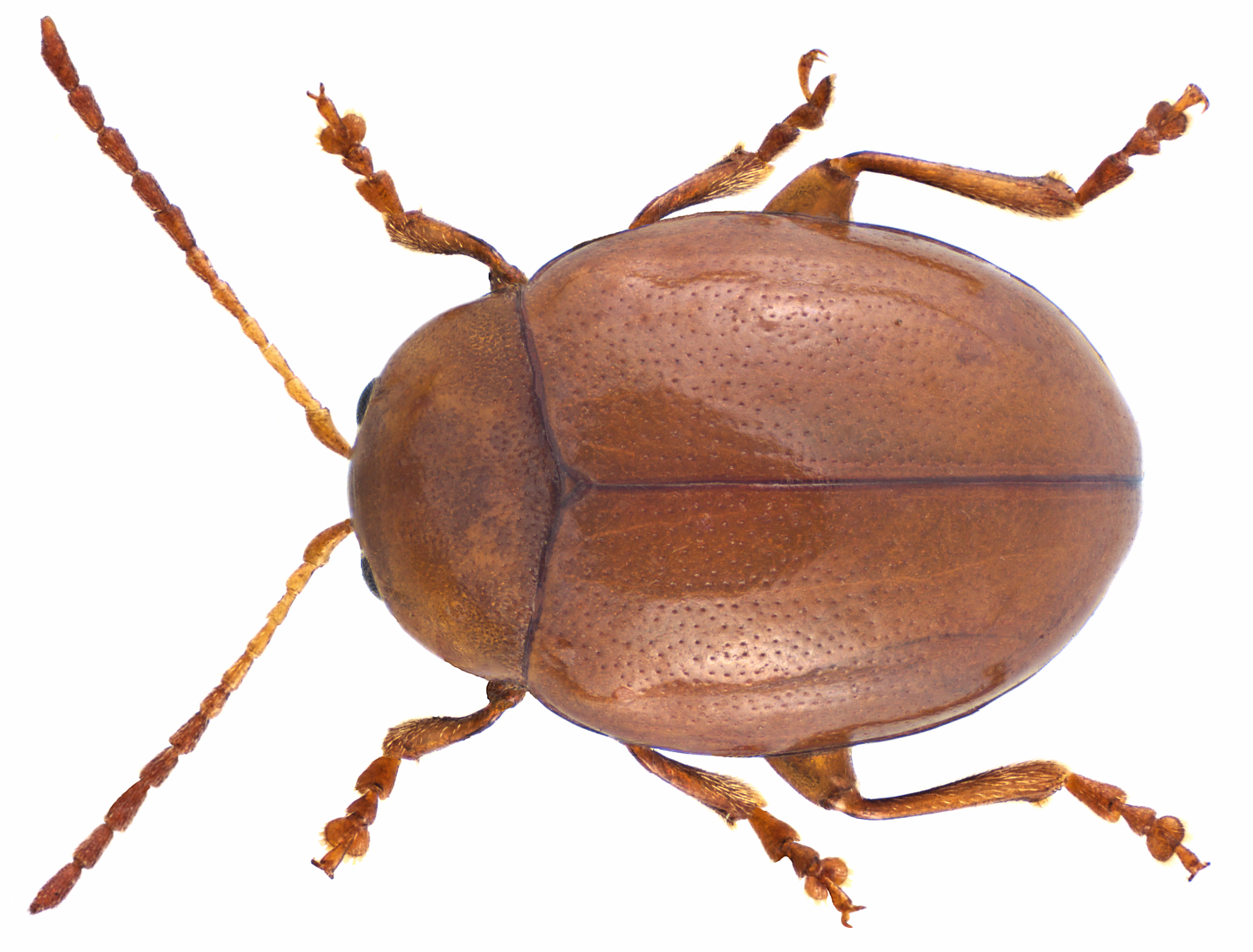 Family: Chrysomelidae Size: 3,5 mm (3,0 to 4,5 mm) Origin: Europe Ecology: lives on Cirsium and Carduus species Location: Switzerland, Graubuenden, Flims, Bargis, 1550 m leg.det. U.Schmidt,30.VI.2004 Photo: U.Schmidt, 2015